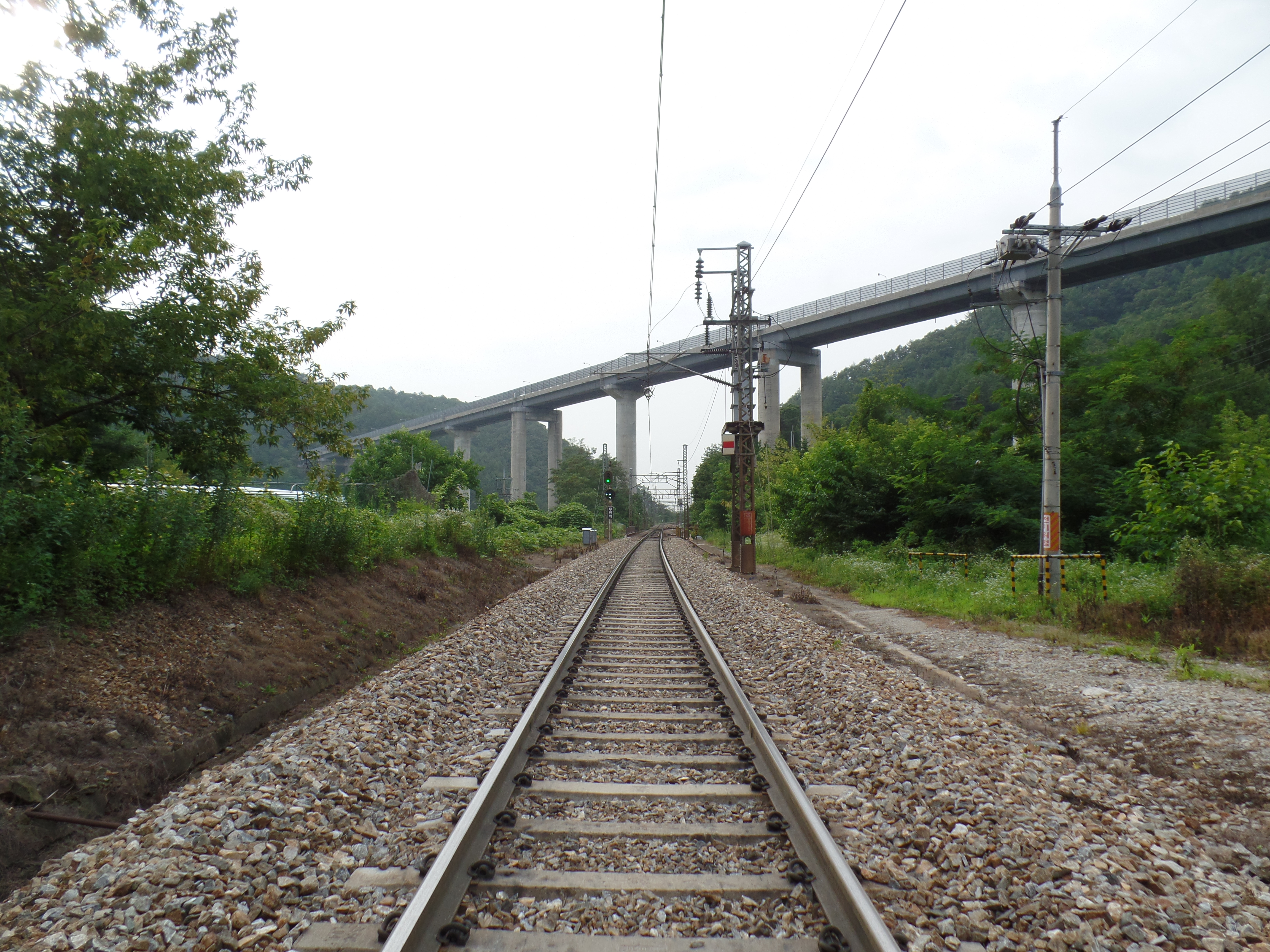 Jungang Line Northern Direction(Neighborhood of Chiak Station, Direction for Cheongnyangni Station) with Jungang Expressway Wonju Bridge